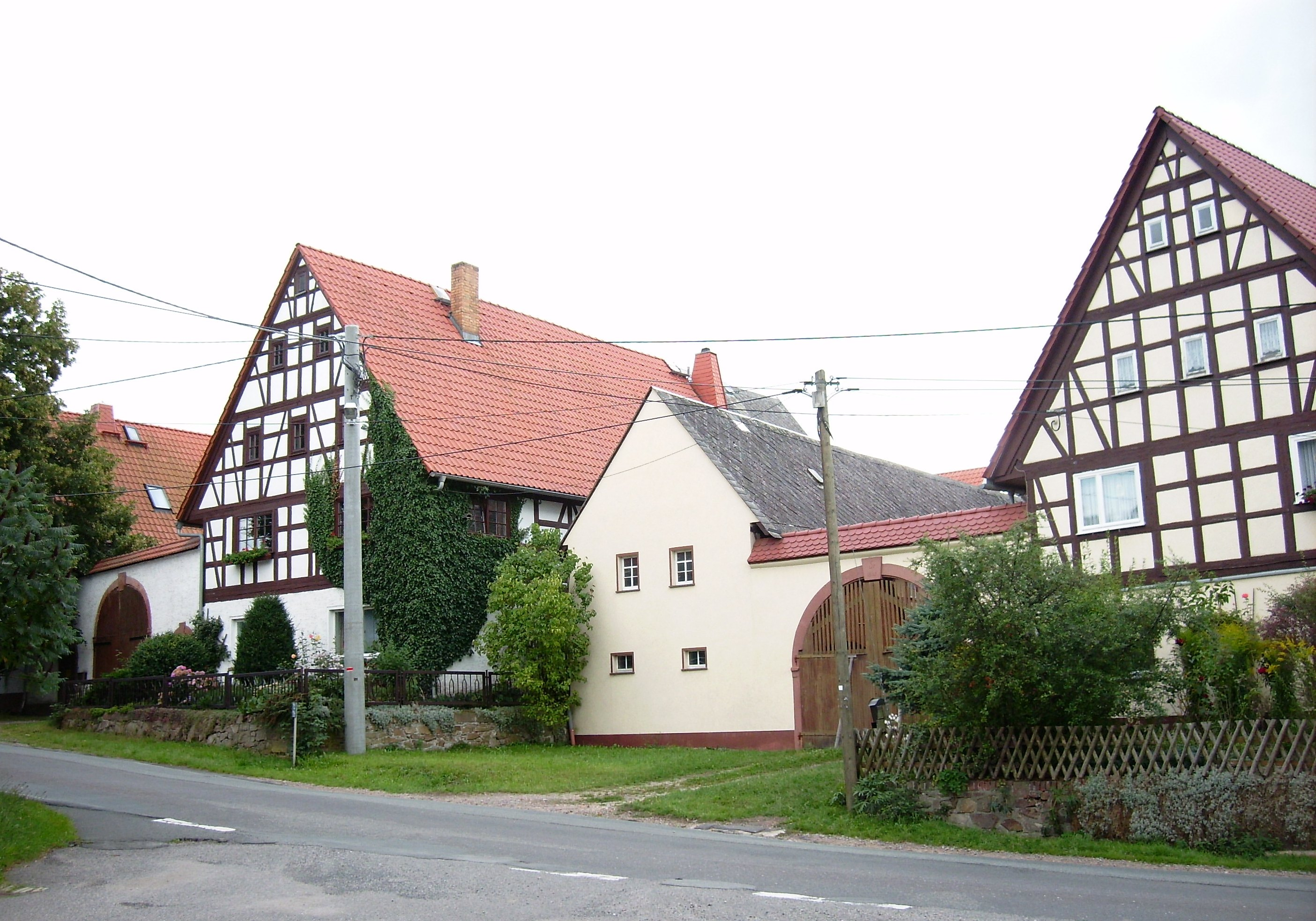 Farmsteads in Cossen (Lunzenau, Mittelsachsen district, Saxony)